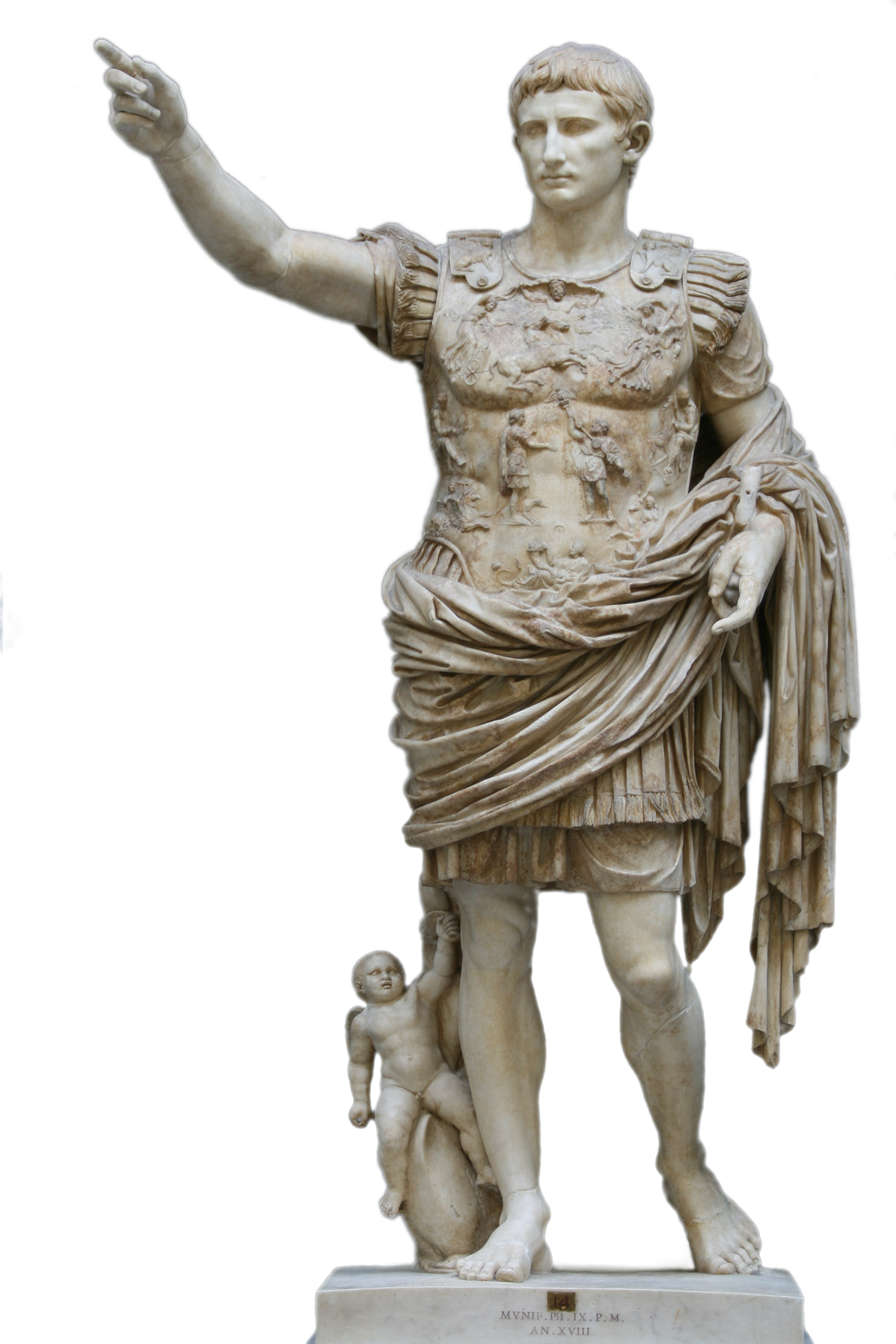 Augustus of Prima Porta, statue of the emperor Augustus in Museo Chiaramonti, Vatican, Rome (with white background).